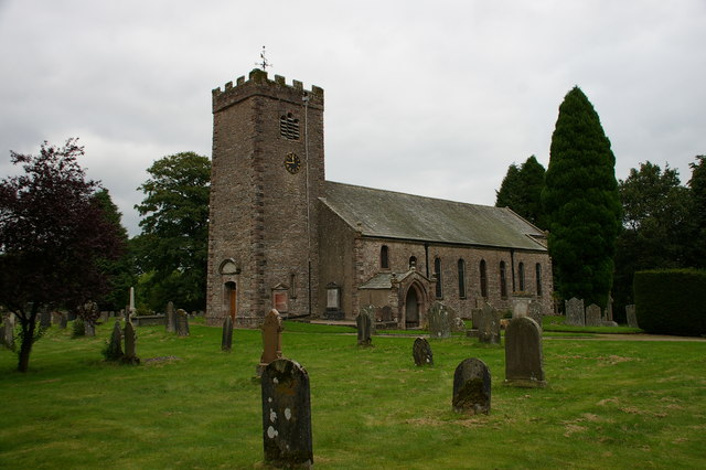 St Oswald's Church, Ravenstonedale.